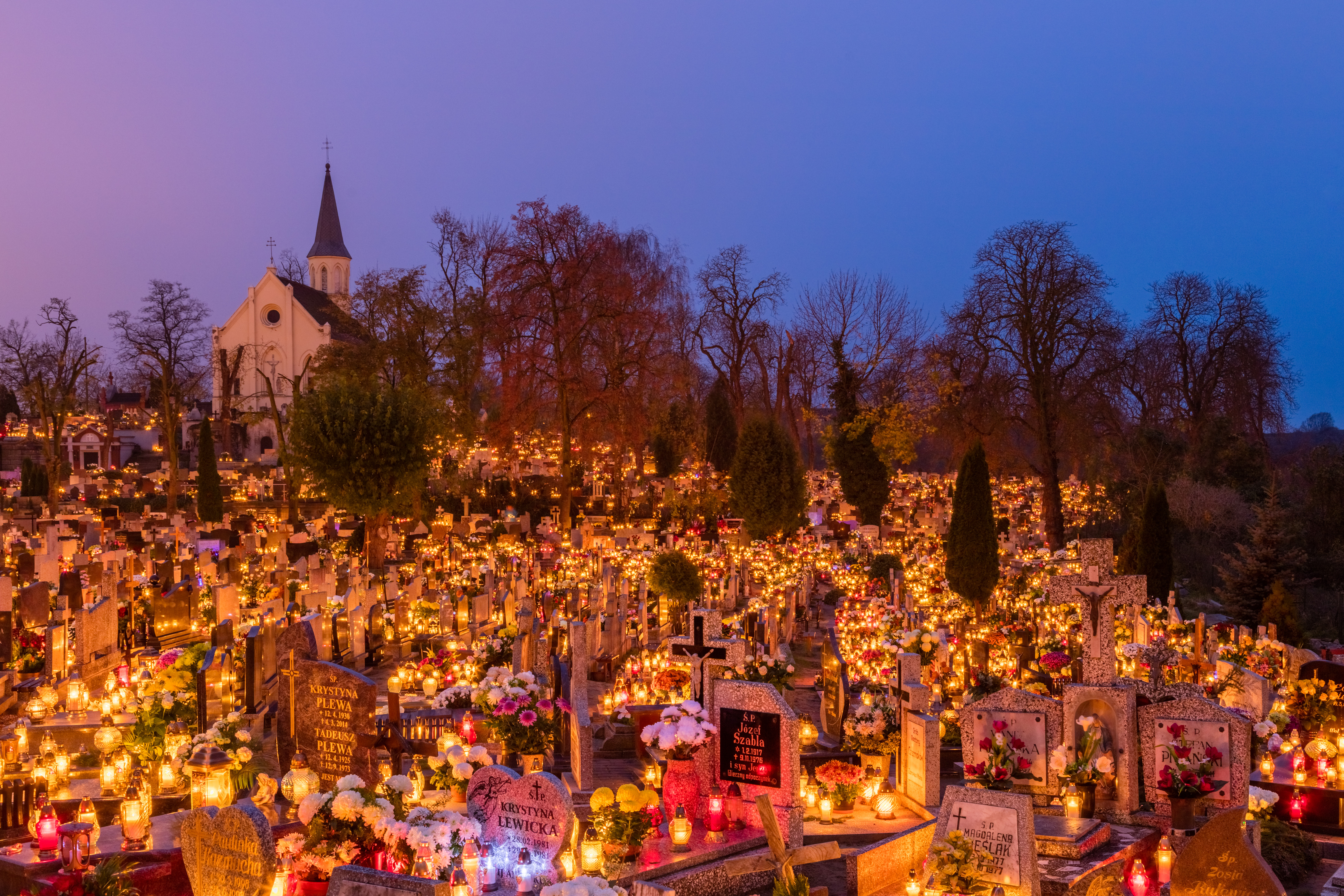 All Saints Day, Holy Cross Cemetery in Gniezno, Poland